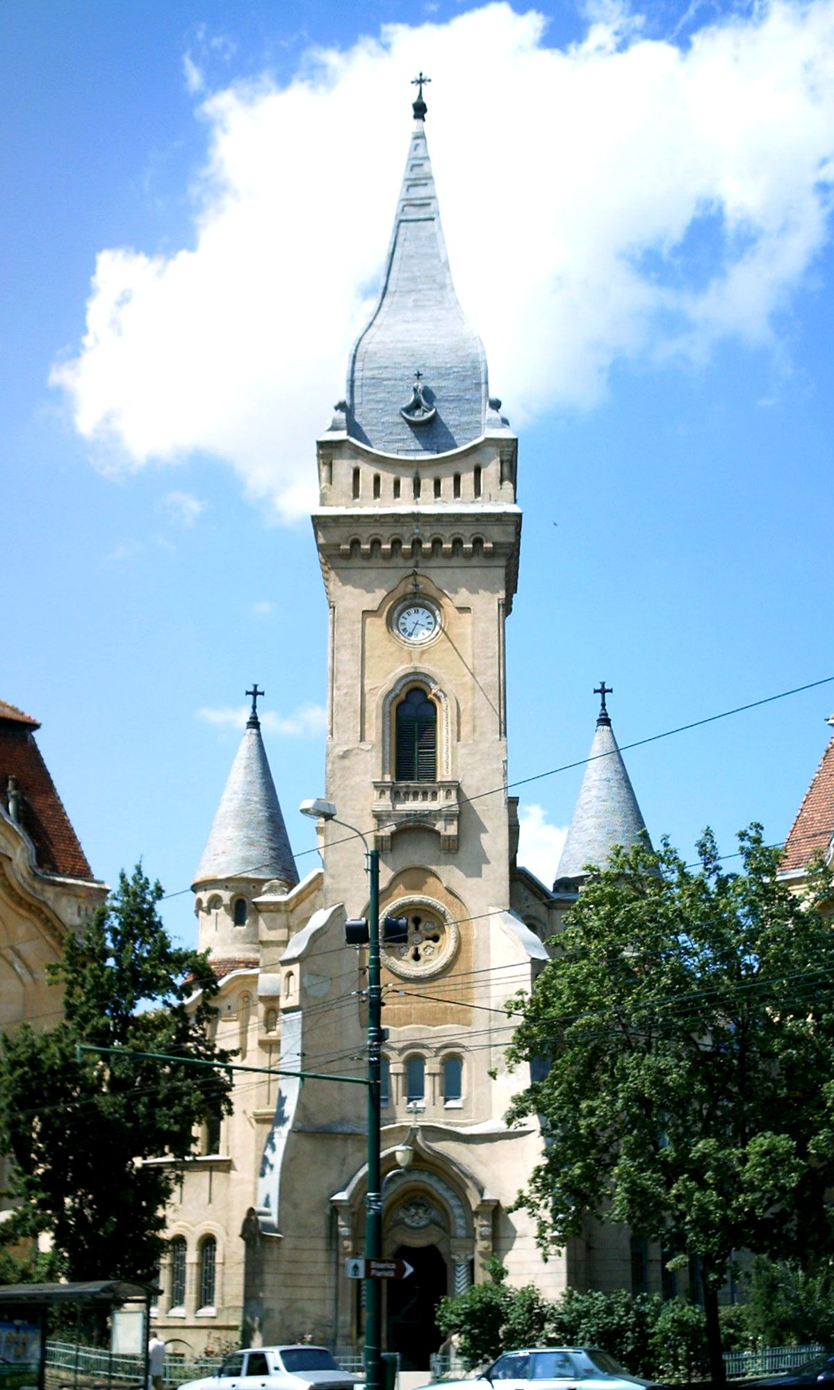 The Church of "Piarist High School" in Timisoara, Romania